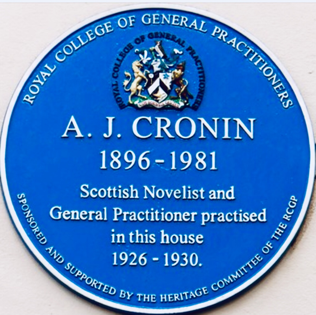 Photograph of blue plaque at 152 Westbourne Grove, London